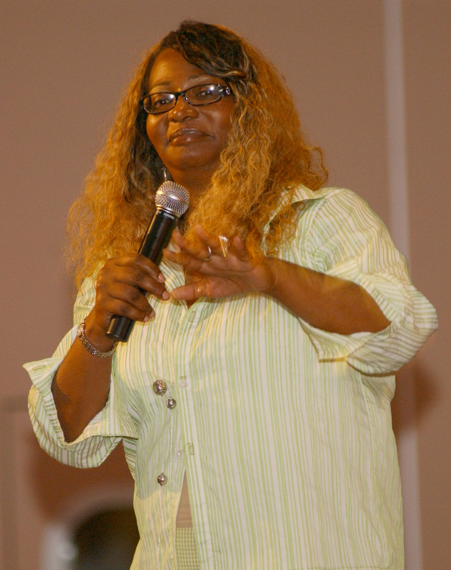 Comedian Ellen Cleghorne entertains Airmen at the La Bella Vista Club Saturday. To raise morale, Ms. Cleghorne and Carrie Snow performed a family and an adult comedy show. The comedians’ visit was a part of a USO and Armed Forces Entertainment Comedy tour.